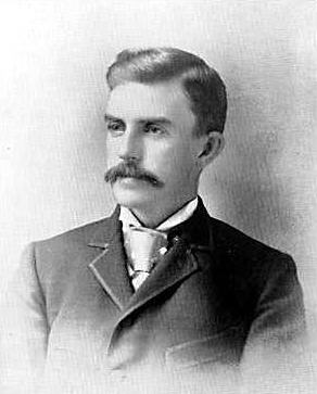 Depicted person: John S. McGroarty – American poet and politician